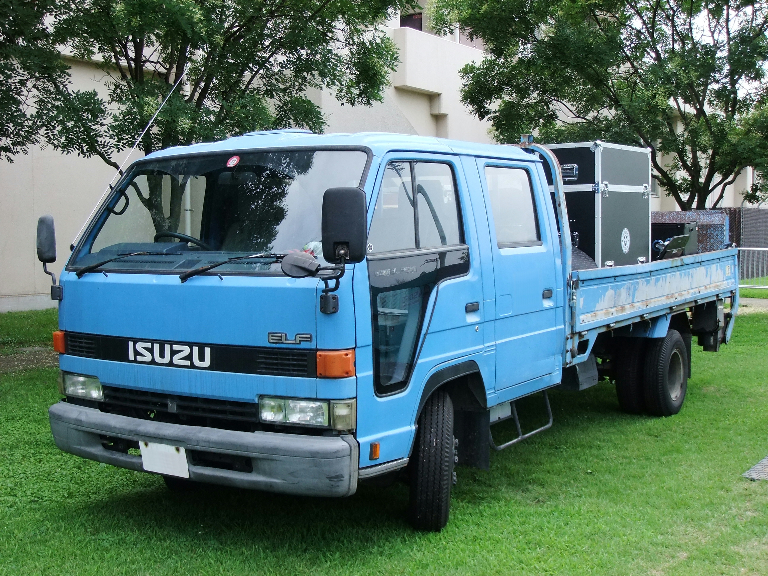 ISUZU ELF 4th Model （Later model）（Model name is ELF250 in the Japanese market）, Dobule-cab, Widebody-type, （It is called N-series or REWARD excluding a Japanese market.）